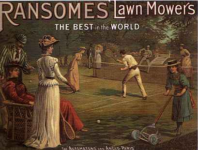 Advertisement for 'Automaton' lawn mower made by Ransomes, Sims & Jefferies of Ipswich